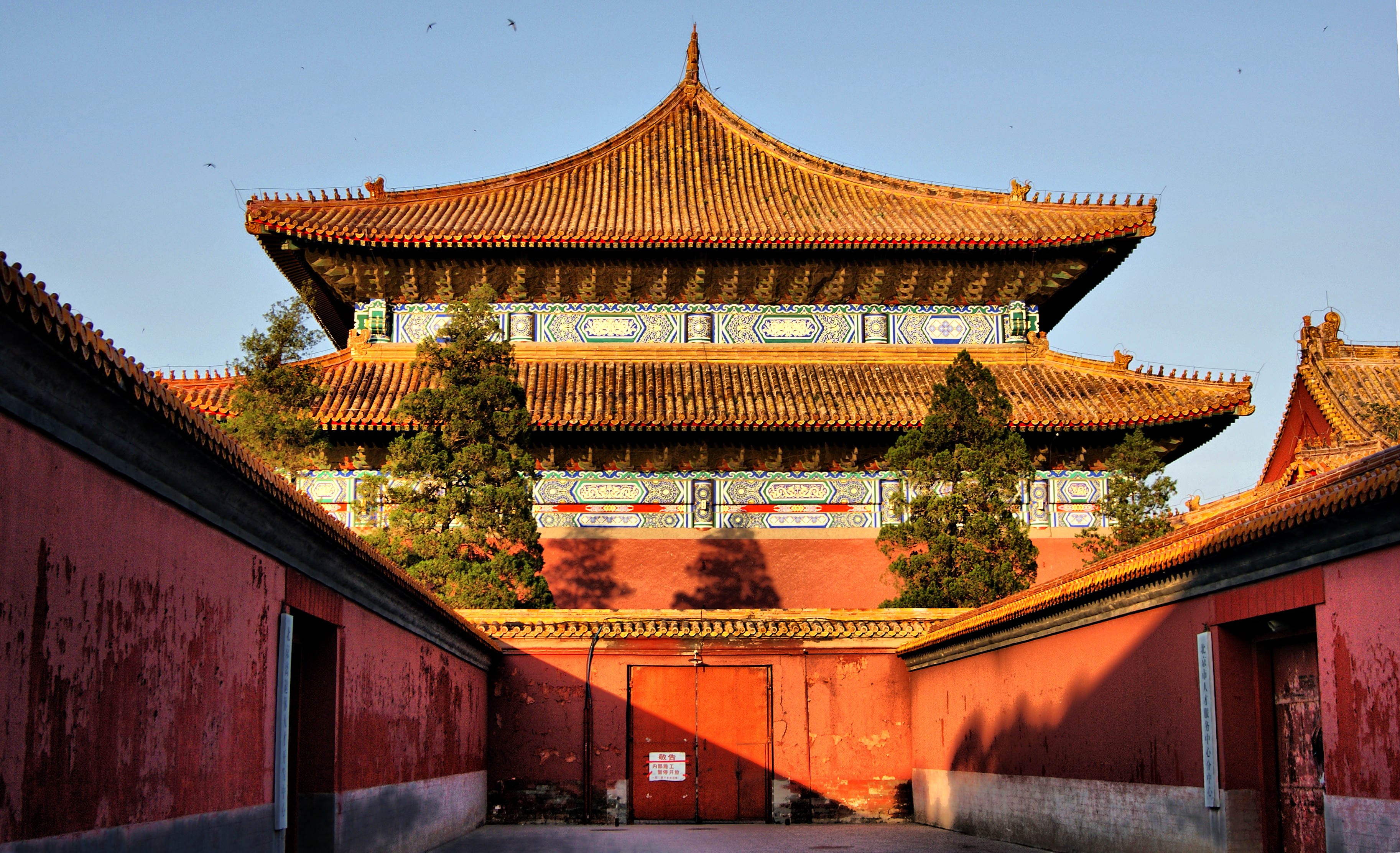 Forbiden city-Beijing-China